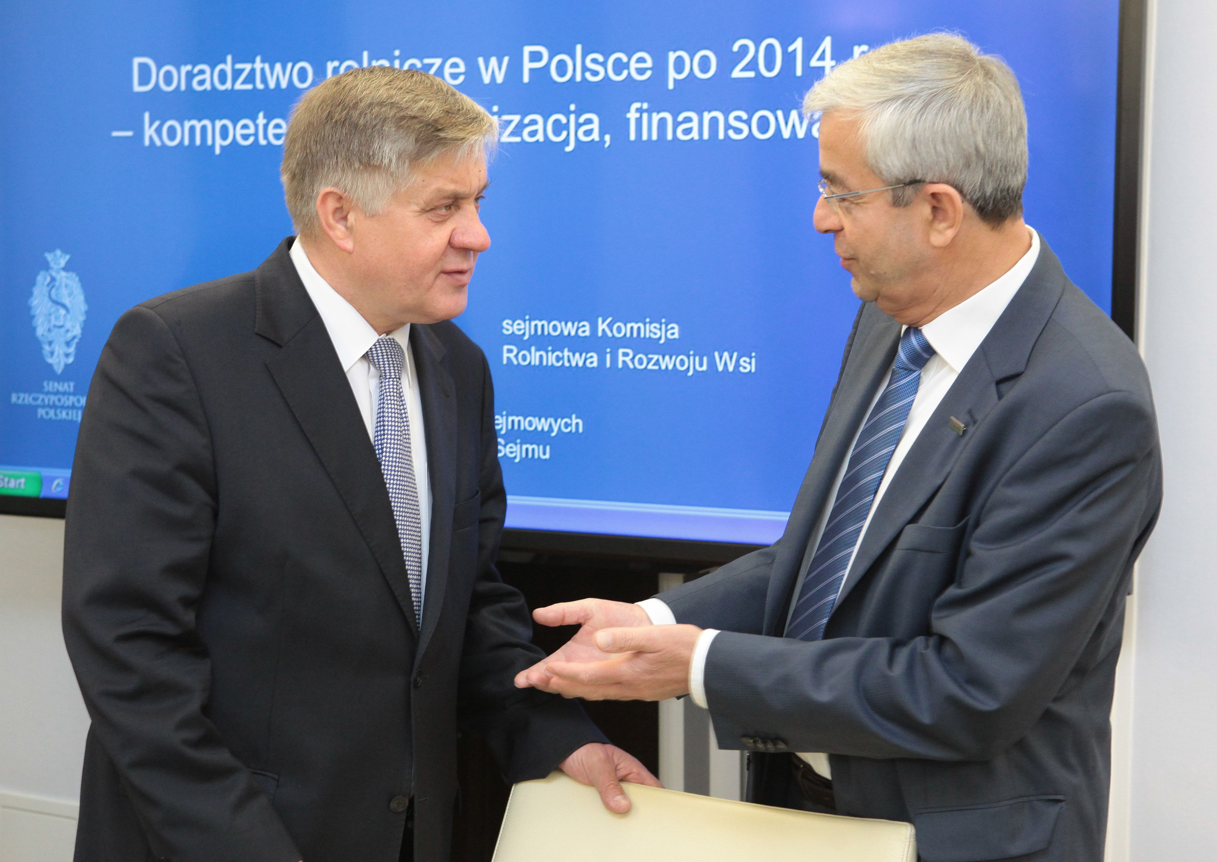 Deputy Krzysztof Jurgiel and senator Jerzy Chróścikowski during the conference "Agricultoral advisory services after 2014 - competences, organization and financing" in the Polish Senate